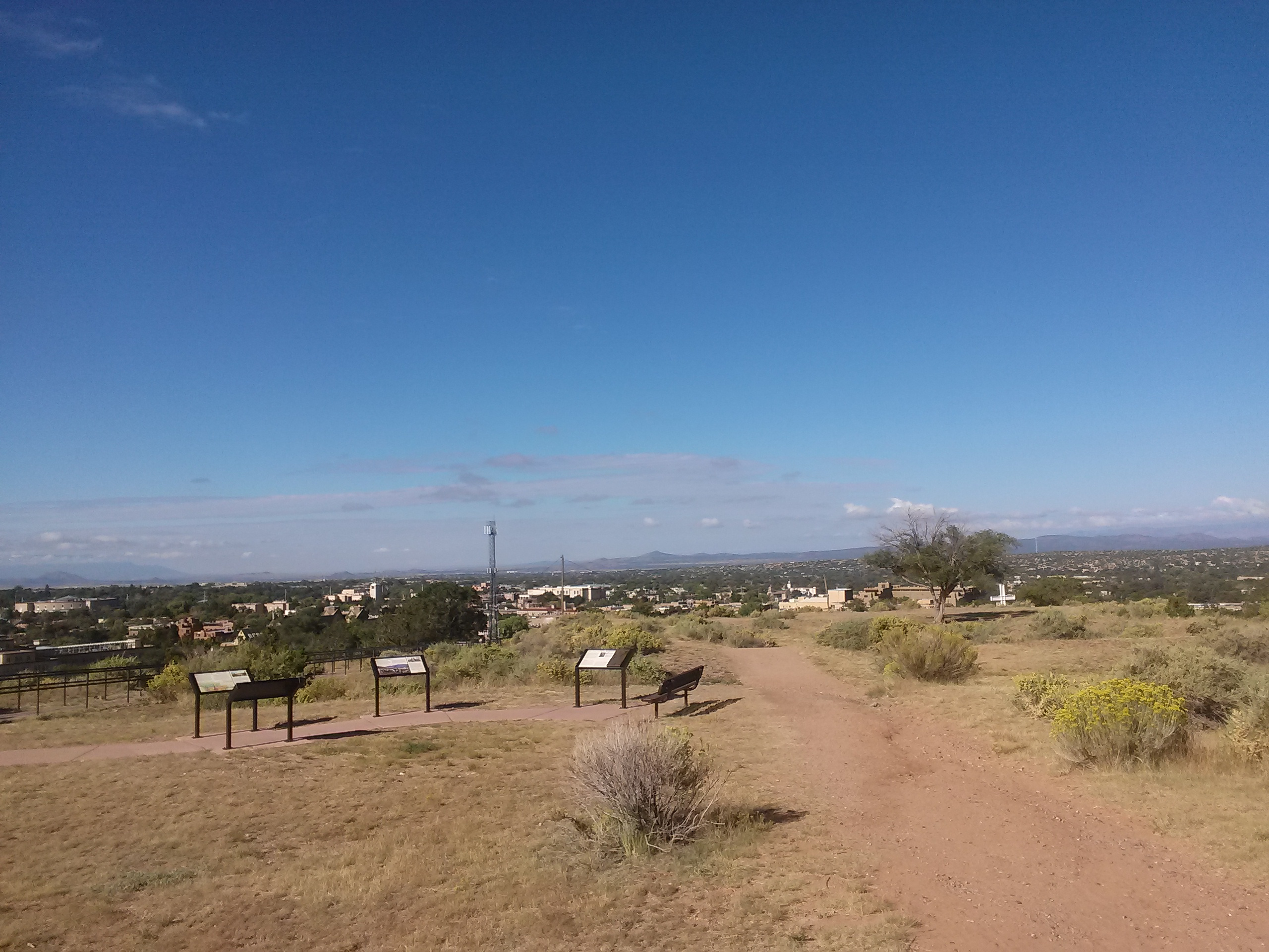 Fort Marcy Ruins, Off State Road 475 Santa Fe